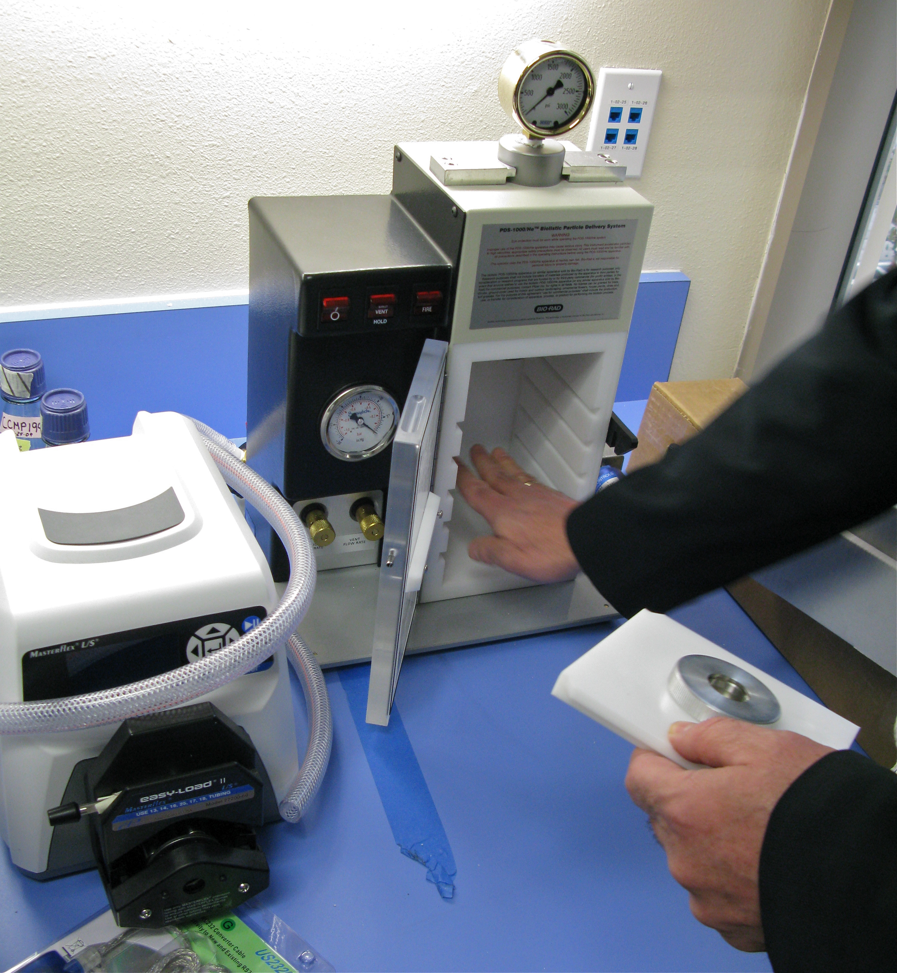 PDS 1000-He Biolistic Particle Delivery System ("Gene Gun"). Checking out a new gene gun at Synthetic Genomics in La Jolla this afternoon. The system shoots a shotgun pattern of metal particles with DNA attached to transfect cells below.